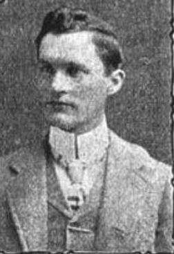 Kentucky Congressman Caleb Powers